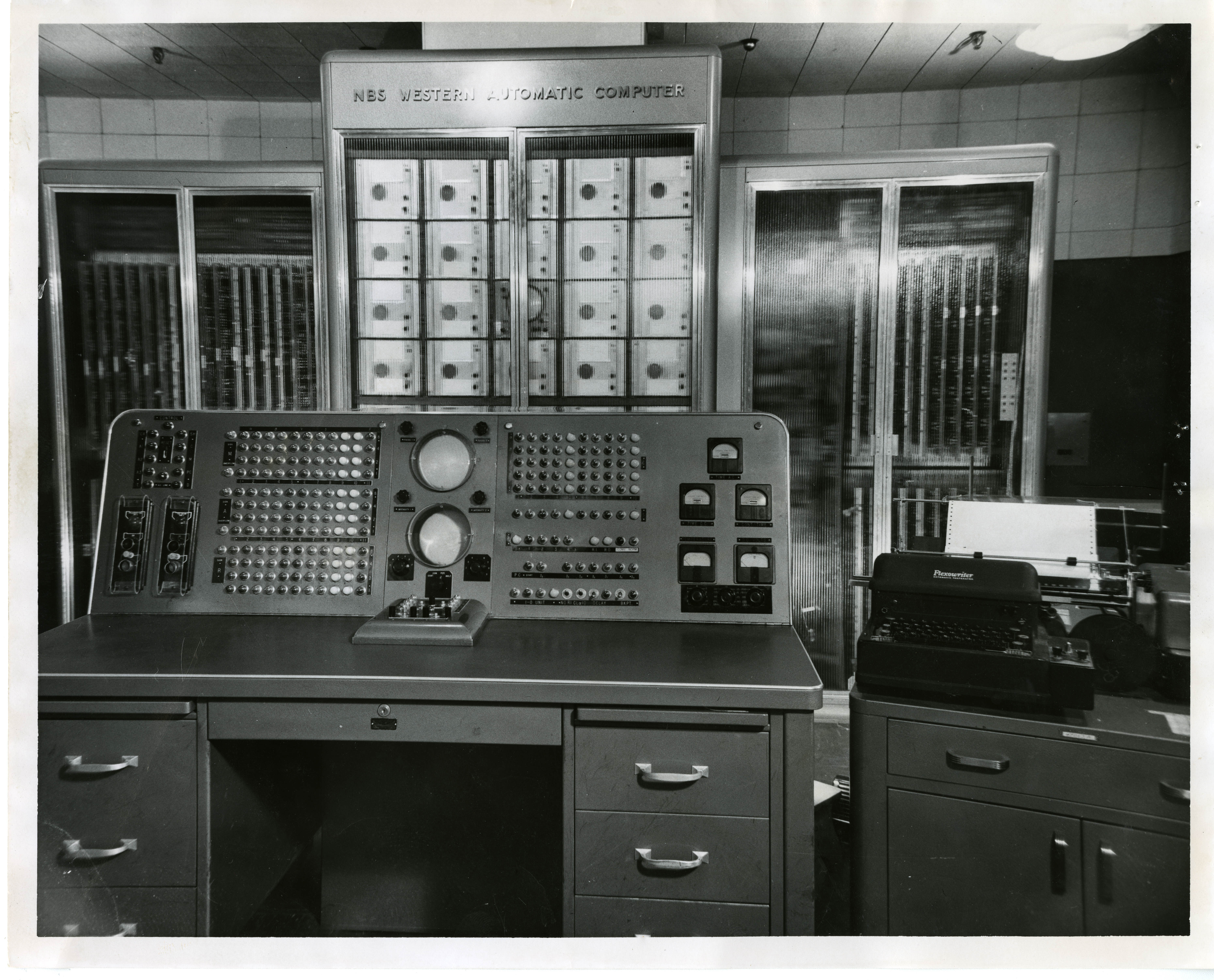 Main SWAC computer, control consode, and input typewriter